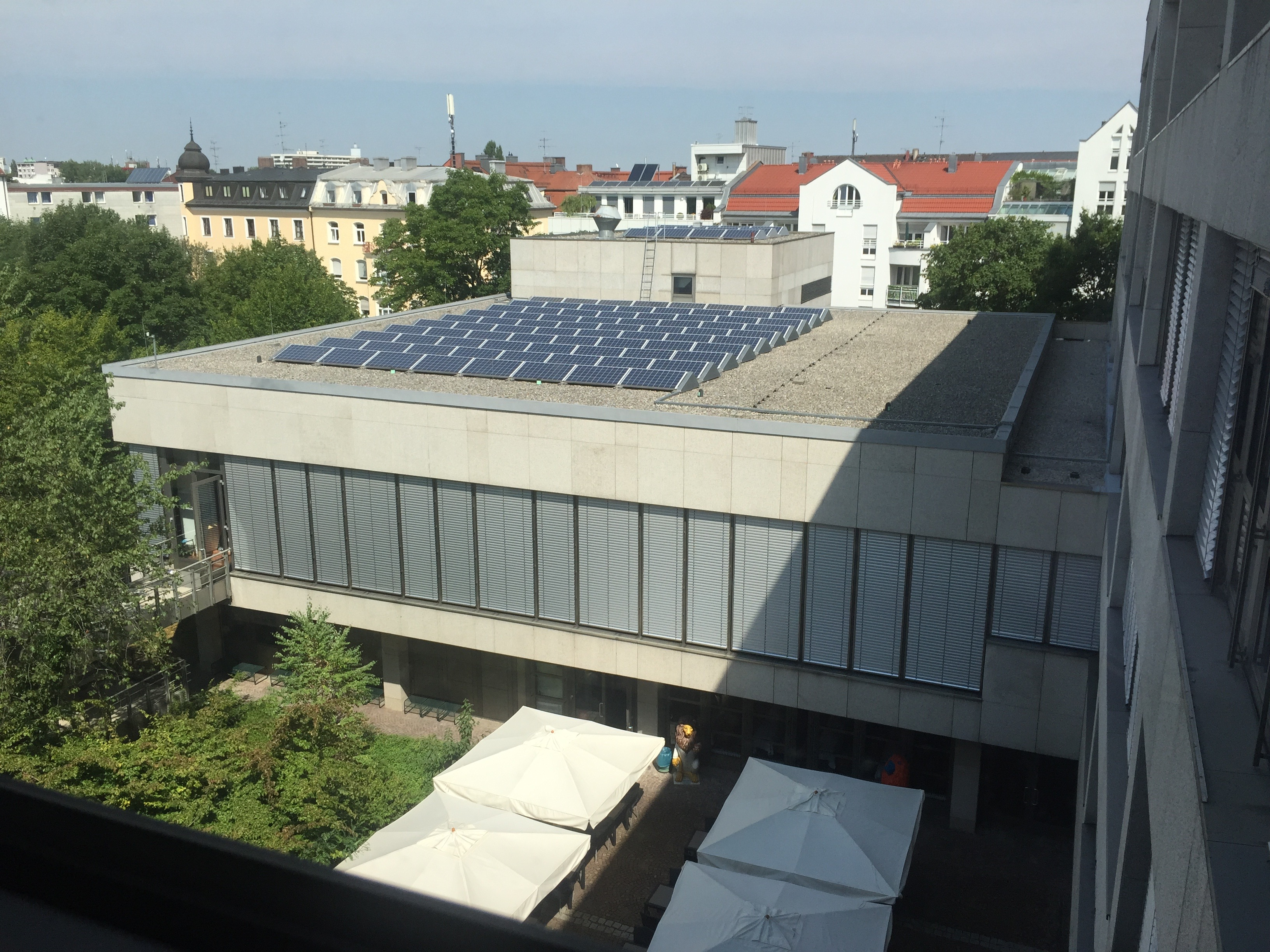 Photovoltaics